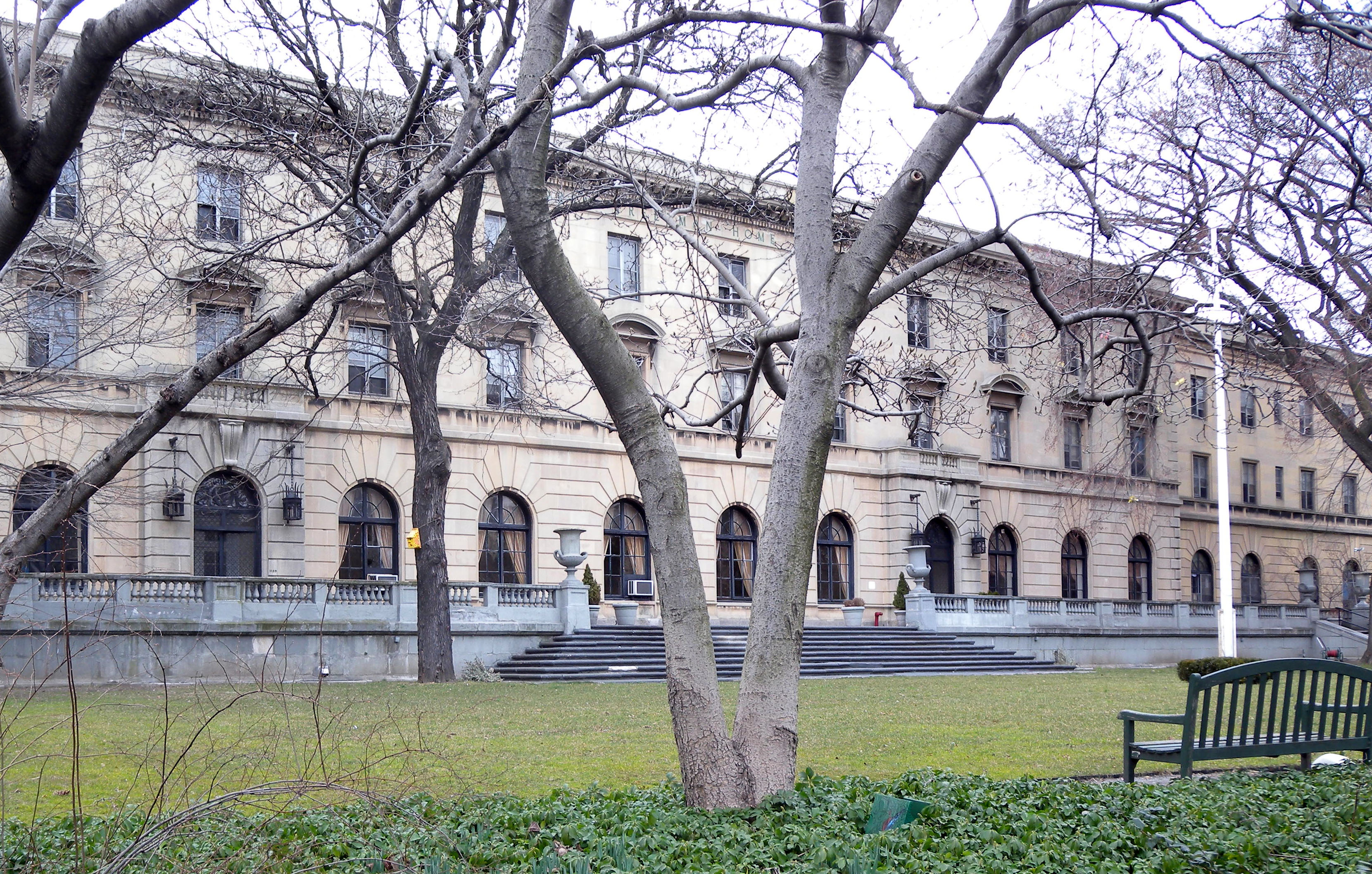 Looking northwest at 1125 Grand Concourse, the Andrew Freedman Home, on a a cloudy afternoon. Sometimes called a "poorhouse for old rich folk".[1]